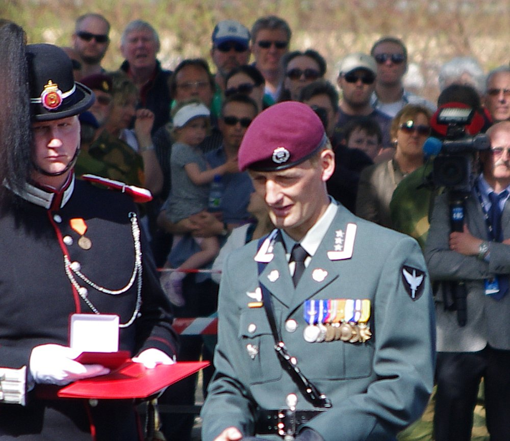 Colonel Eirik Johan Kristoffersen prior to receiving the War Cross w/Sword at a ceremony 8 May 2011